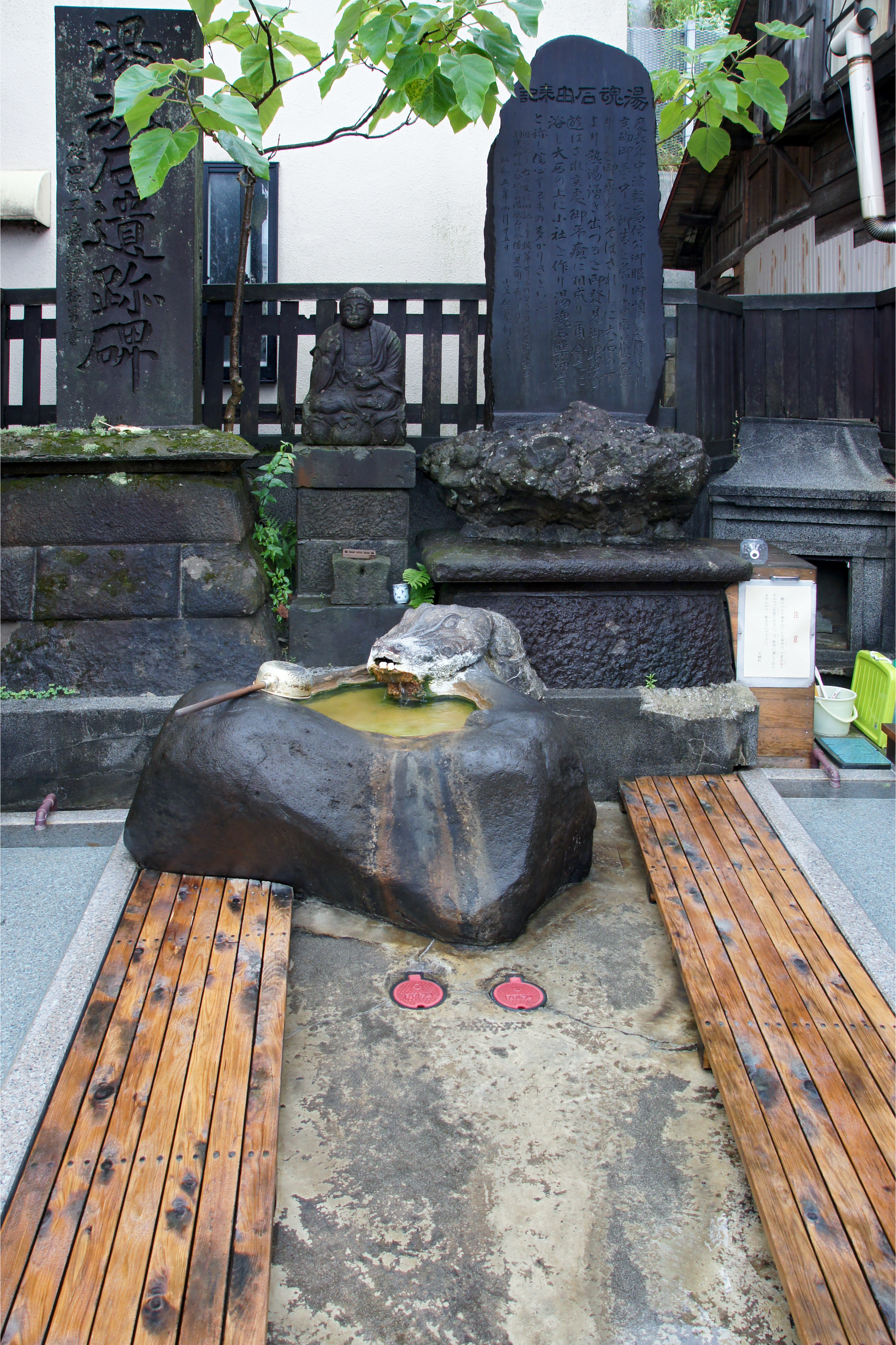 Yudamaishi-yakushido of Owani Onsen in Owani, Aomori prefecture, Japan